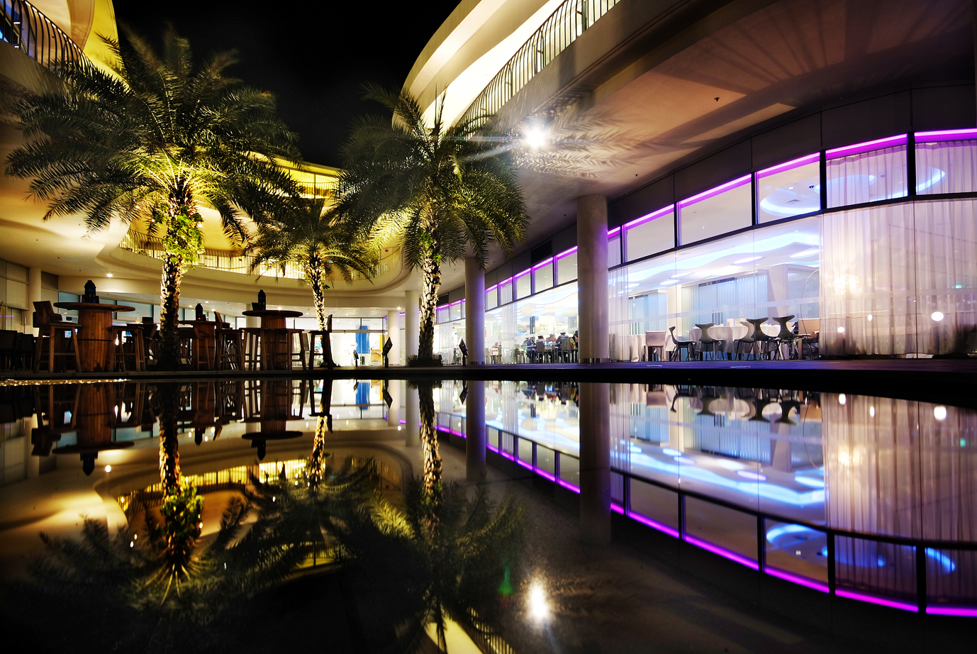 Vivo City is the largest shopping mall in Singapore, located at the Harbour Front precinct. Since its opening in 2006 it is still the front runner in trendy retail & upmarket F & B establishments. pp: Non-HDR. Just Duplicate to a new layer and choose "Soft Light". Automatically colors become richer but some dark areas need to be knocked off using eraser tool from photoshop in steps of 30% until desired. Merge layers and apply light contrast and sharpening.